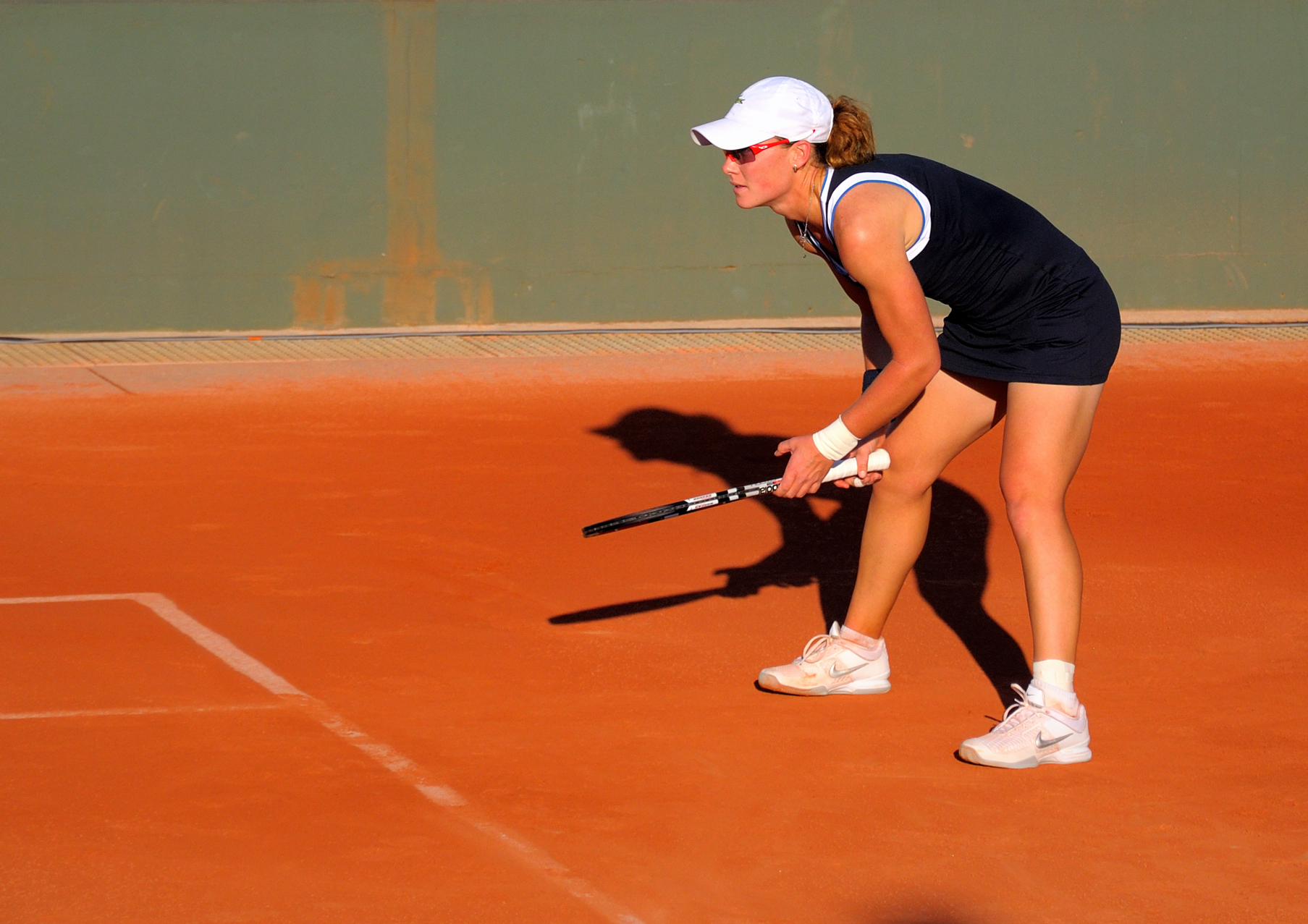 Far from the glamour of Court Philippe Chatrier, out on Court 5, Sam Stosur began her 2010 French Open run against Simona Halep, a former junior champion.